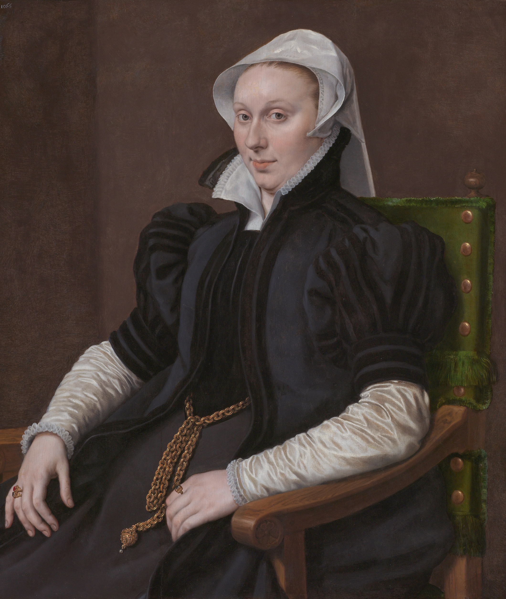 Portrait of Anne Fernely (d. 1596), since 1544 wife of Sir Thomas Gresham. Pendant of a portrait of her husband (see File:Anthonis Mor 004.jpg).